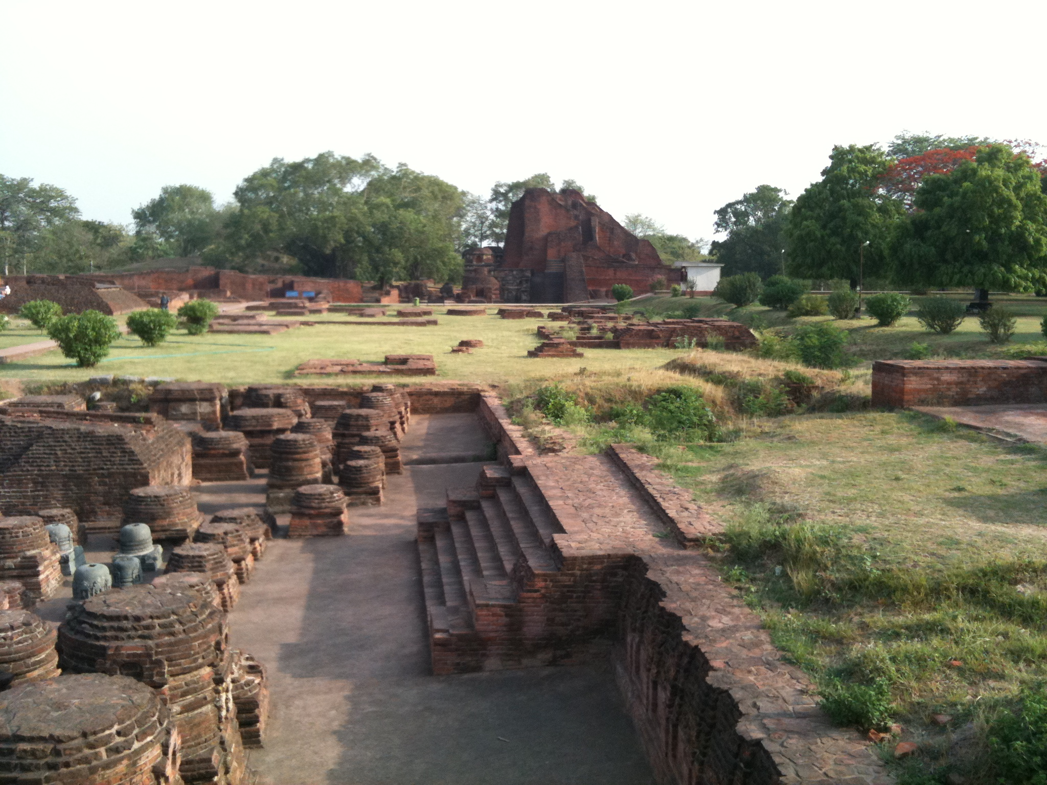 All mounds, structures and buildings enclosed in the acquired area